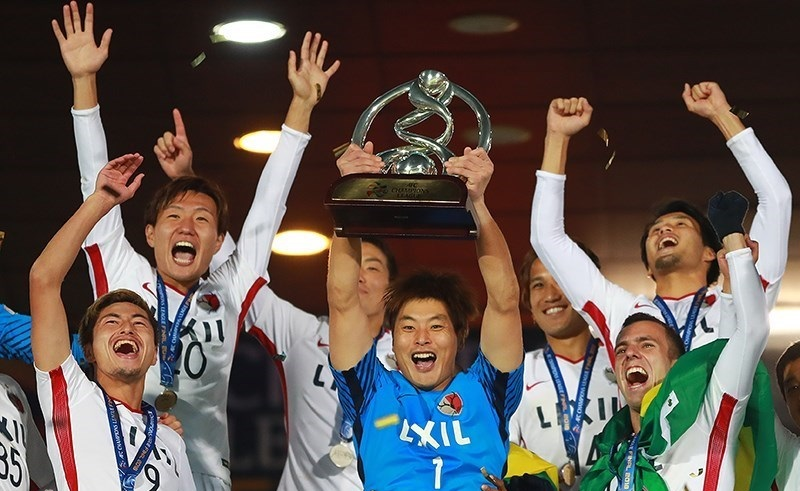 AFC Champions League Final 2018